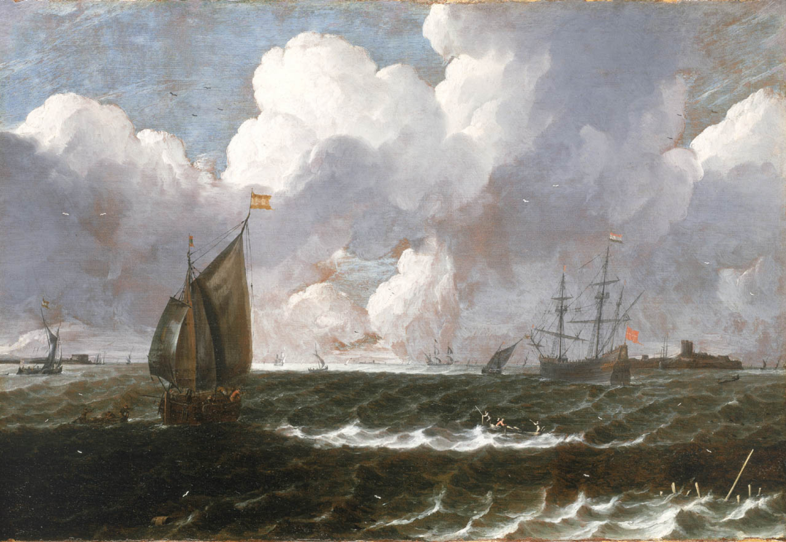 Shipping in a River Estuary An early painting by this artist, whose speciality was storm scenes at sea. A merchant ship with an ornately carved stern, is at anchor on the right, flying the Dutch flag. A fort can be seen in the distance together with the masts of other shipping. Land is visible in the far distance in the centre of the image. In the foreground a small craft rows across the scene with several figures on board; two hold barge poles and the third man is depicted rowing. A streak of light illuminates the sea in the foreground, drawing attention to the small boat. On the left a coastal craft contains figures who are probably engaged with fishing nets, and there is another small rowing boat to the left. On the left, in the far distance, is the entrance to a harbour, and other shipping visible in the distance. There is a barrel floating in the sea in the foreground to the left, bearing an indistinct inscription which may be the artist's initials. Upright piles have been sunk into the shore on the right. A source of brilliant light plays through the clouds and on the water, which serves to highlight the waves. Van Plattenberg was a pupil of van Eertvelt and he painted with the grey palette used in this painting before he followed van Eertvelt to Italy. He moved from Florence to Paris where he changed his name to Plattemontagne. Shipping in a River Estuary